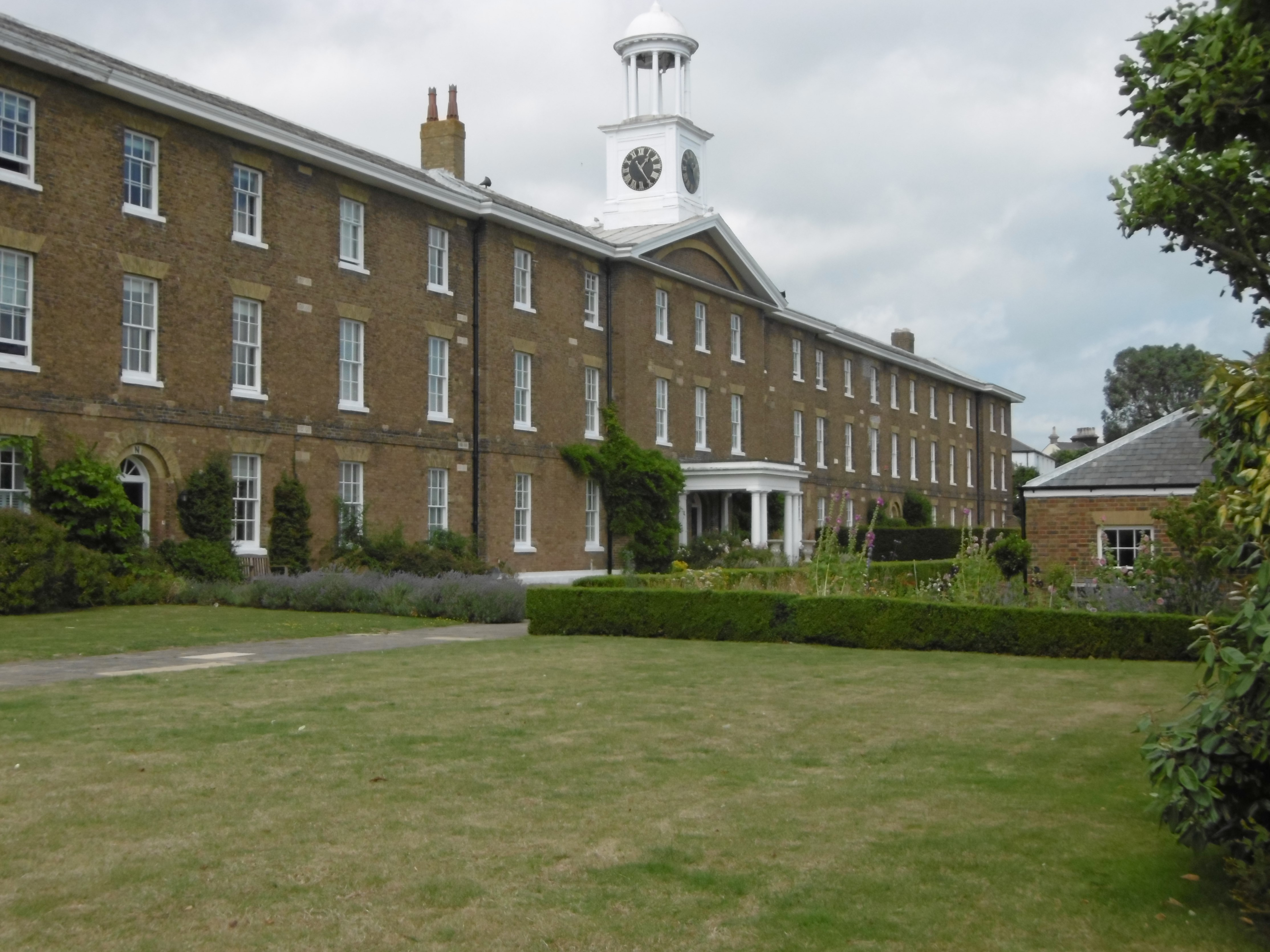 The former Deal Barracks